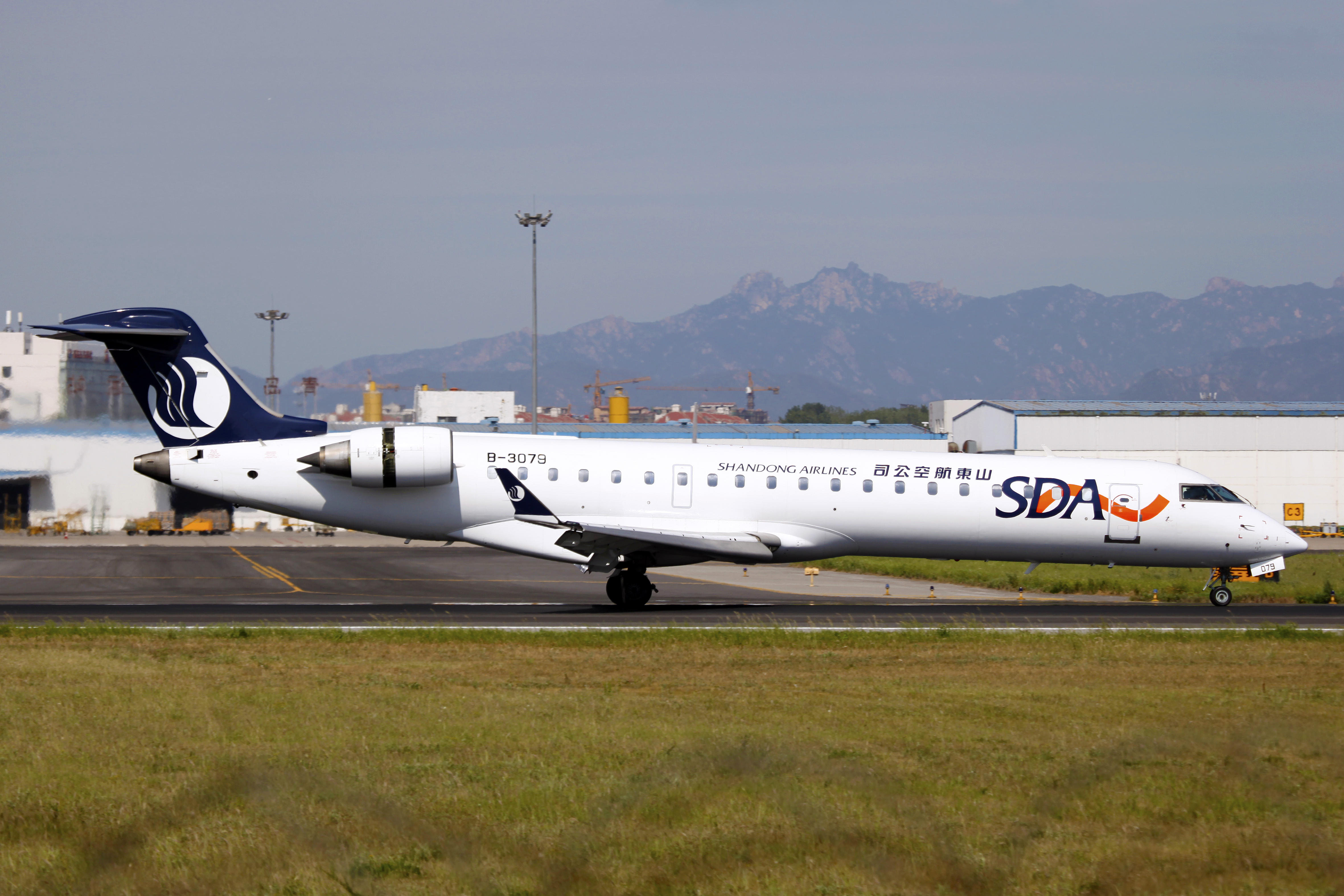 B-3079 | Shandong Airlines | Canadair CL-600-2C10 Regional Jet CRJ-701ER | Qingdao Liuting International Airport [TAO]